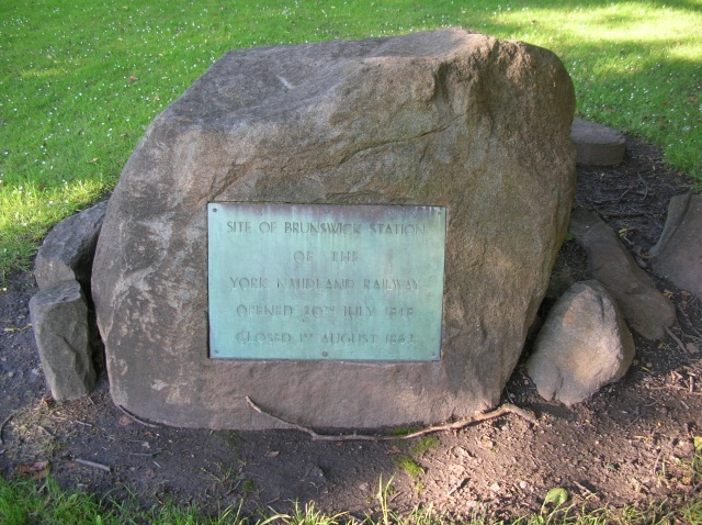 Brunswick Railway plaque Marking the site of the former Harrogate Brunswick railway station. This station was here as to enter Harrogate would have required building the railway across the stray, although this did eventually happen.